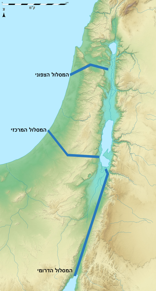 Based on: File:Dead Sea terrain location map.jpg Dead-Sea-canal